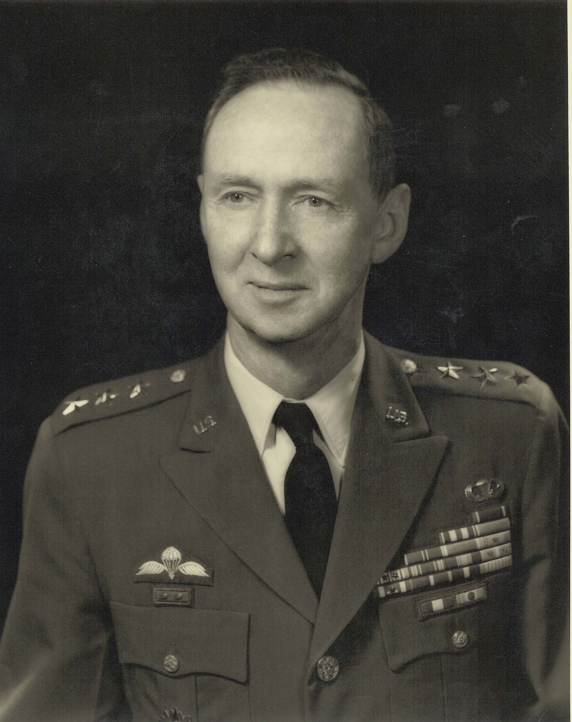 Portrait of Alva Revista Fitch (September 10, 1907–November 25, 1989), lieutenant general in the United States Army and deputy director of Defense Intelligence Agency from 1964 to 1966.